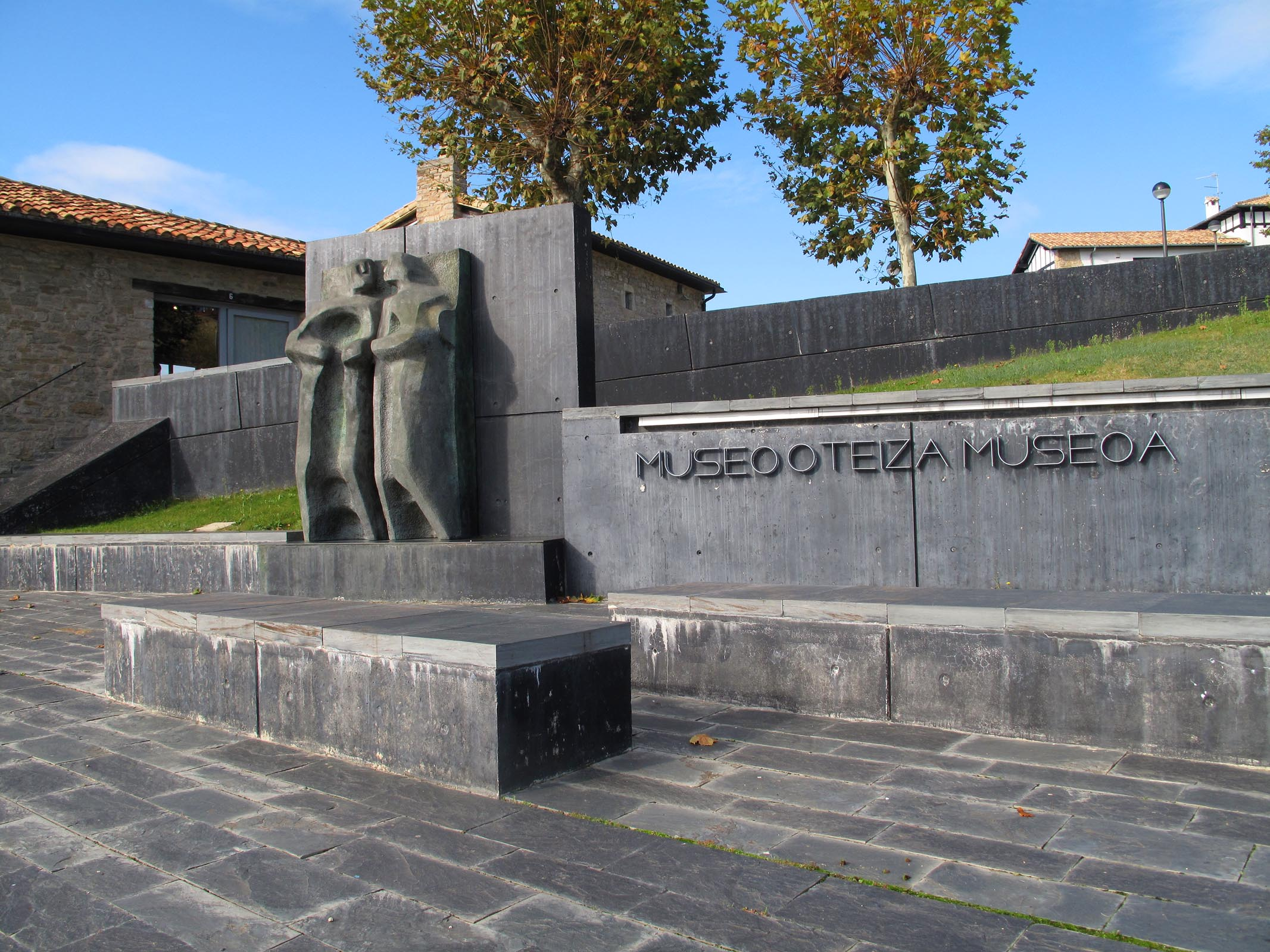 Jorge Oteiza Museum (Fundacion Oteiza) with Apóstoles (1952), - Spain, Alzuza, next to the museum’s entrance